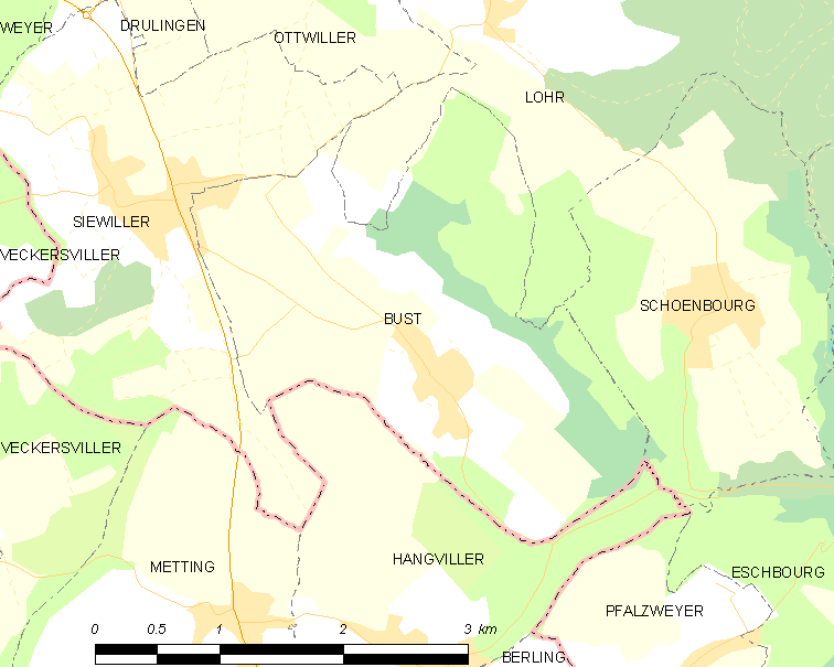 Map of French municipality